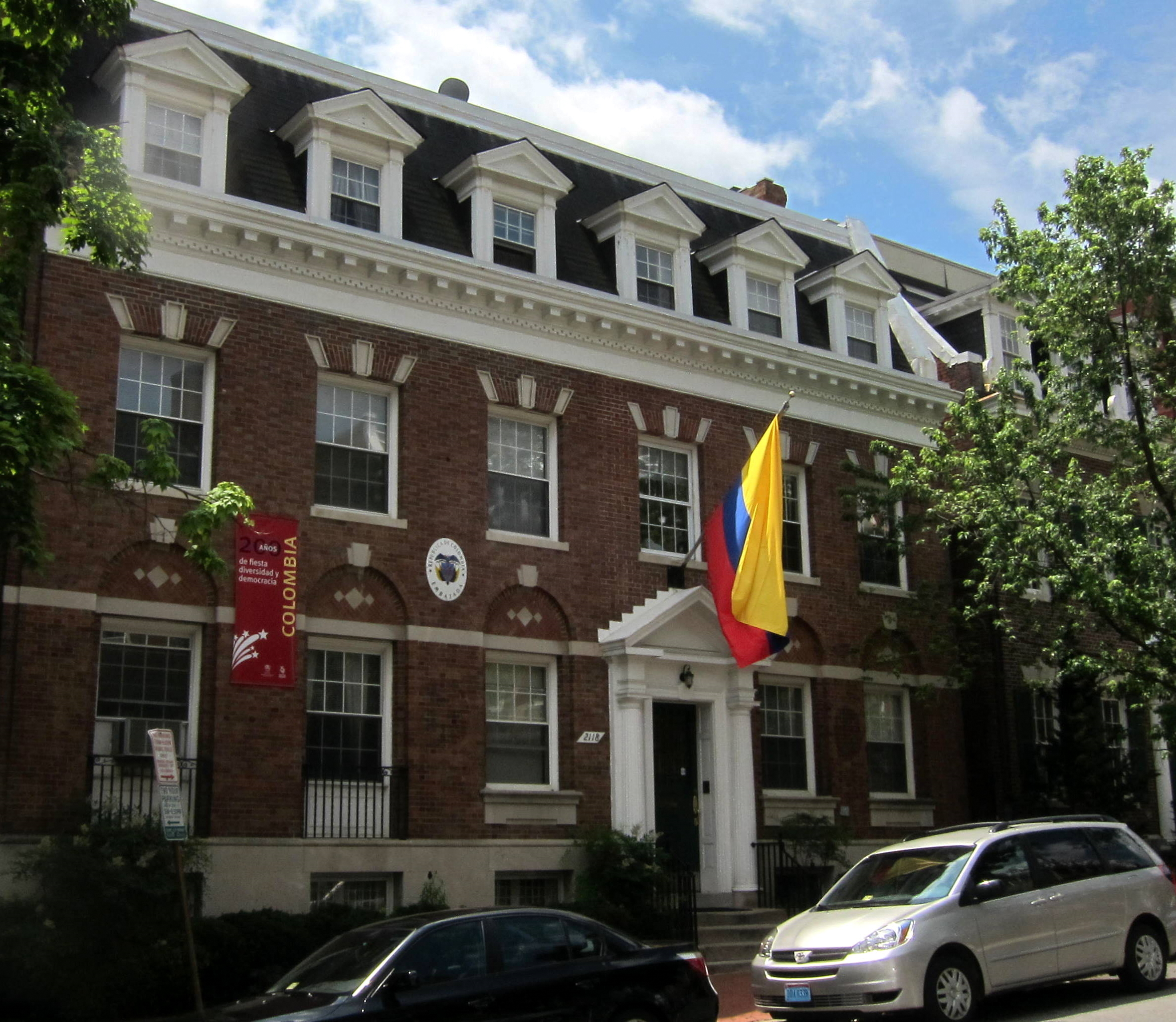 The Embassy of Colombia located at 2118 Leroy Place, N.W., in the Sheridan-Kalorama neighborhood of Washington, D.C. Built around 1915 as a private residence, the Colonial Revival-style building is designated as a contributing property to the Sheridan-Kalorama Historic District, listed on the National Register of Historic Places in 1989. Previous occupants include Henry S. Graves.